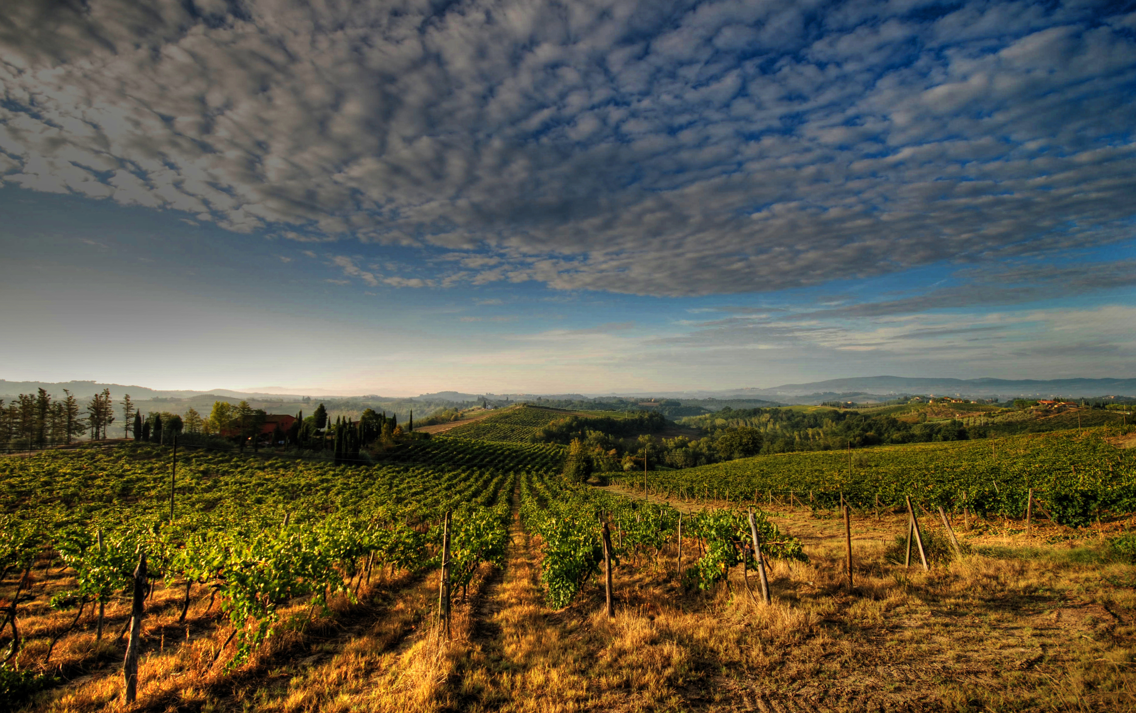 Grapevines in the Chianti wine zone of Tuscany in Central Italy